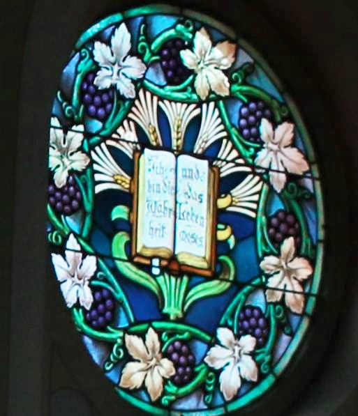 Image of a round church window